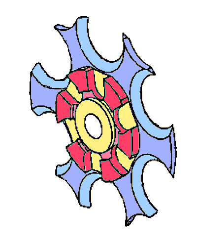 Showing the cartridge-ejector of an revolver. The inner part (yellow) with the parts for revolving the cylinder (red) and the ejector/holder part in blue.